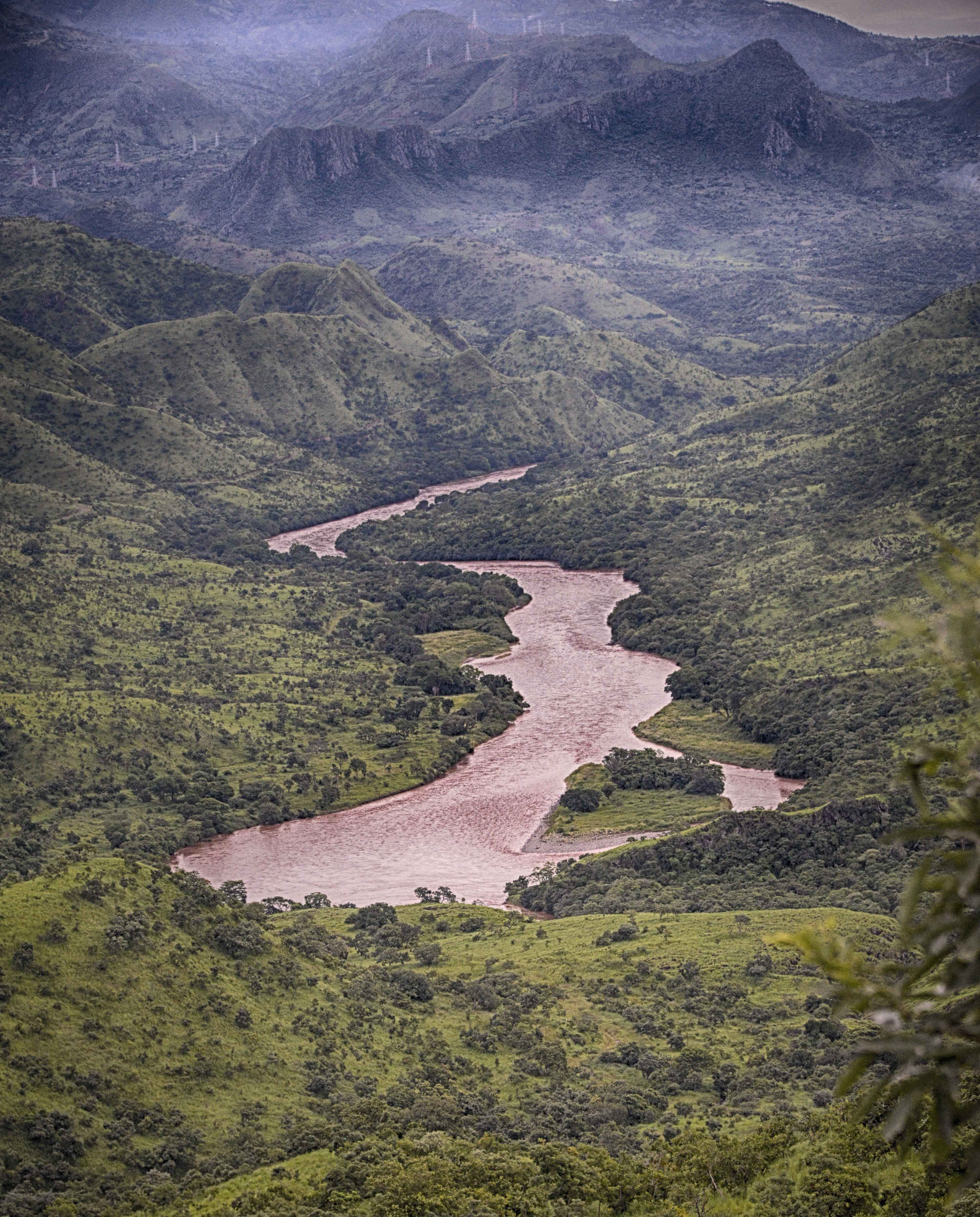 Upper Omo River Valley, Ethiopia